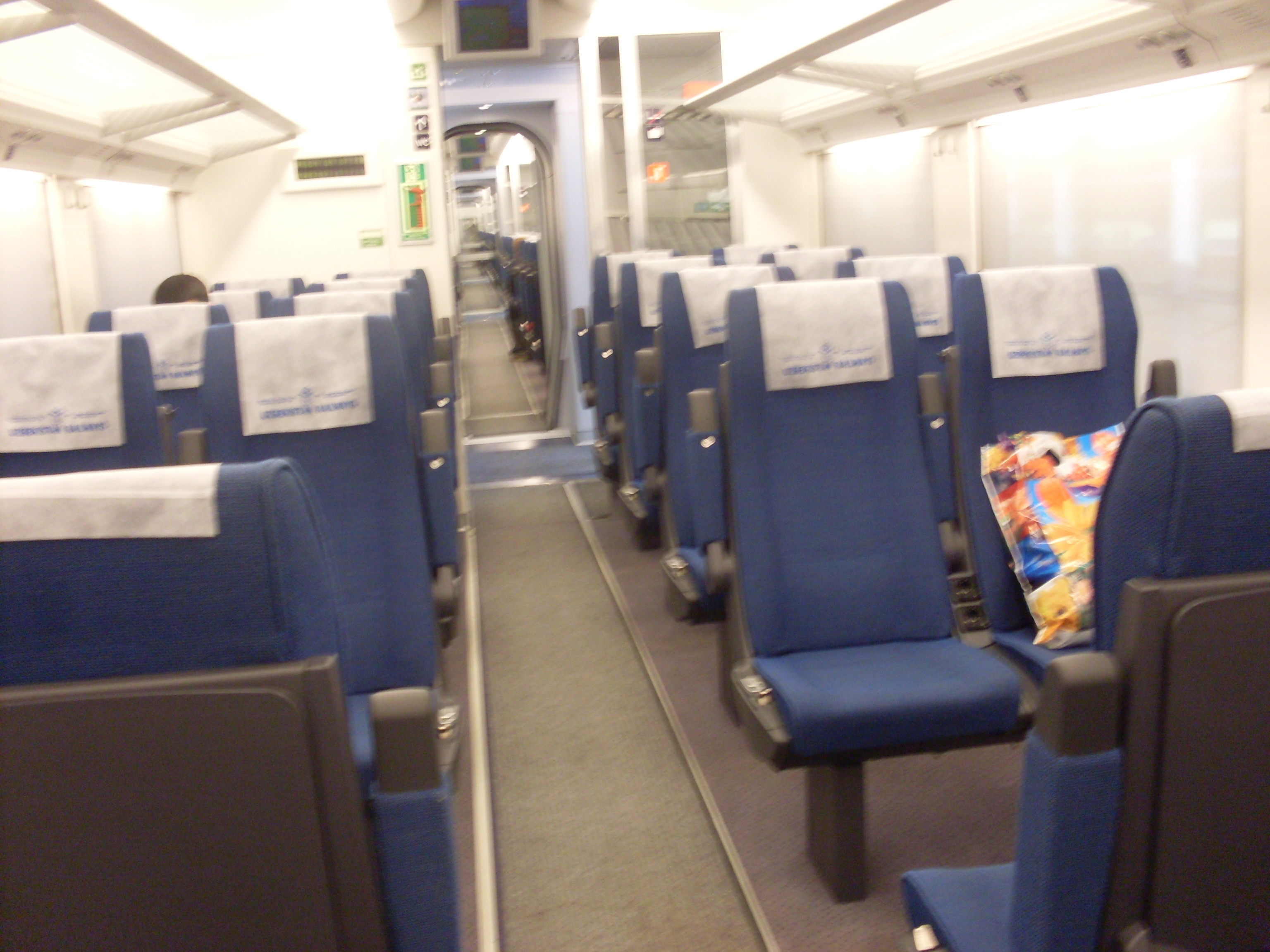 Hi-speed trains Afrosiyab (Uzbekistan)